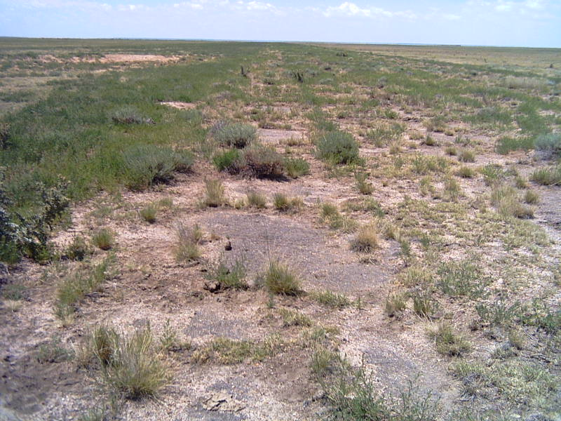 Arlingtion AuxiliaryArmy Airfield, Colo. E/W runway looking west.